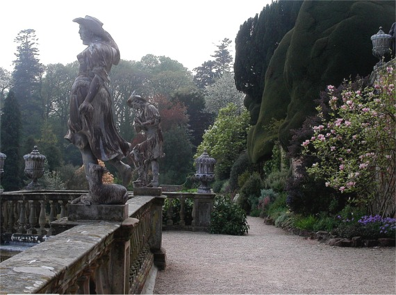 Terrace walk and statues in Powis Castle garden - Wales